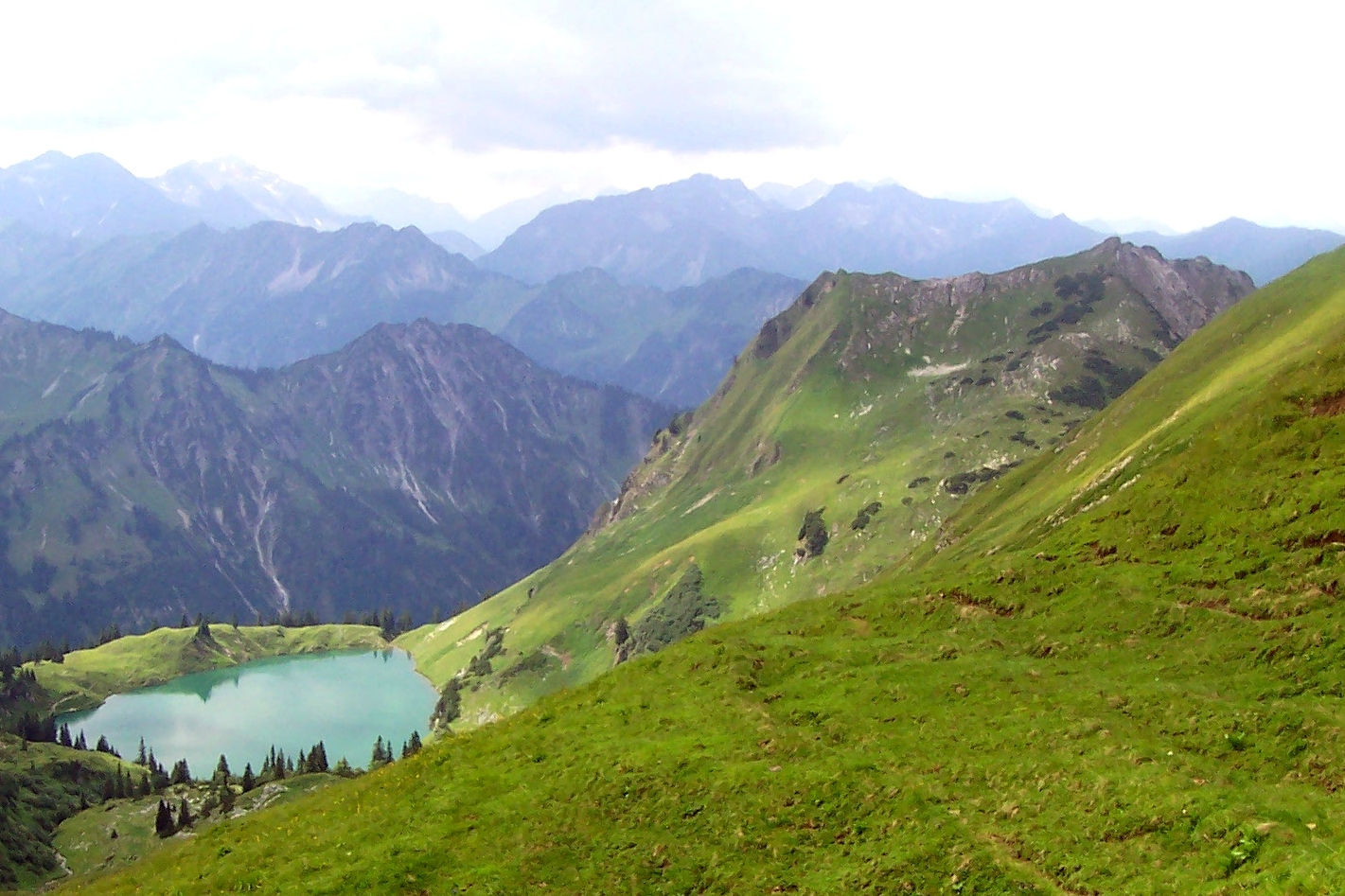 Seealpsee in the Allgäu alps near Oberstdorf